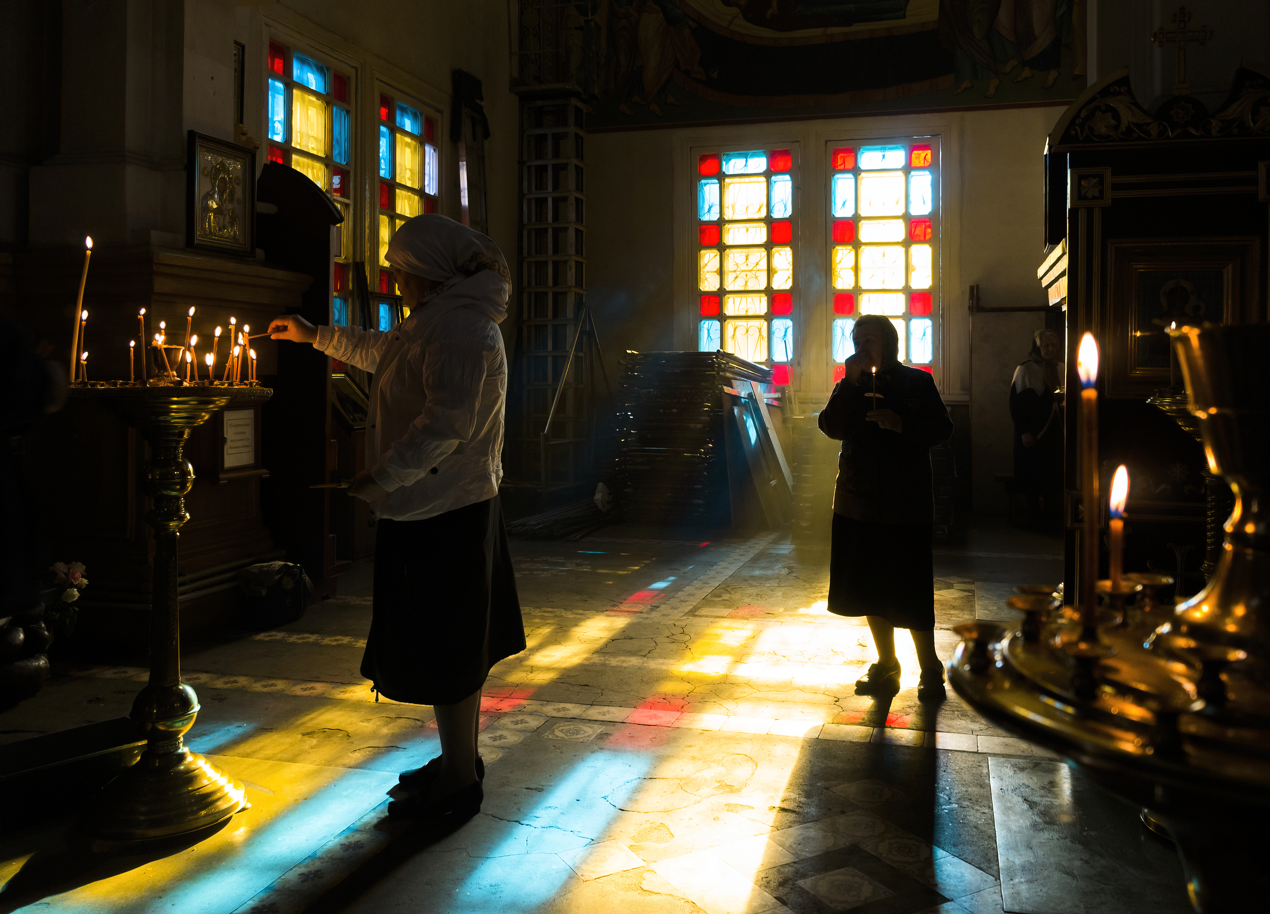 Orthodox prayers in Zenkov cathedral. Almaty. KazakhstanСрпски (ћирилица): Православни верници (казахстански Руси) у катедрали Христовог Вазнесења (катедрала Зенкова) уочи Васкрса. Алмати, Казахстан.